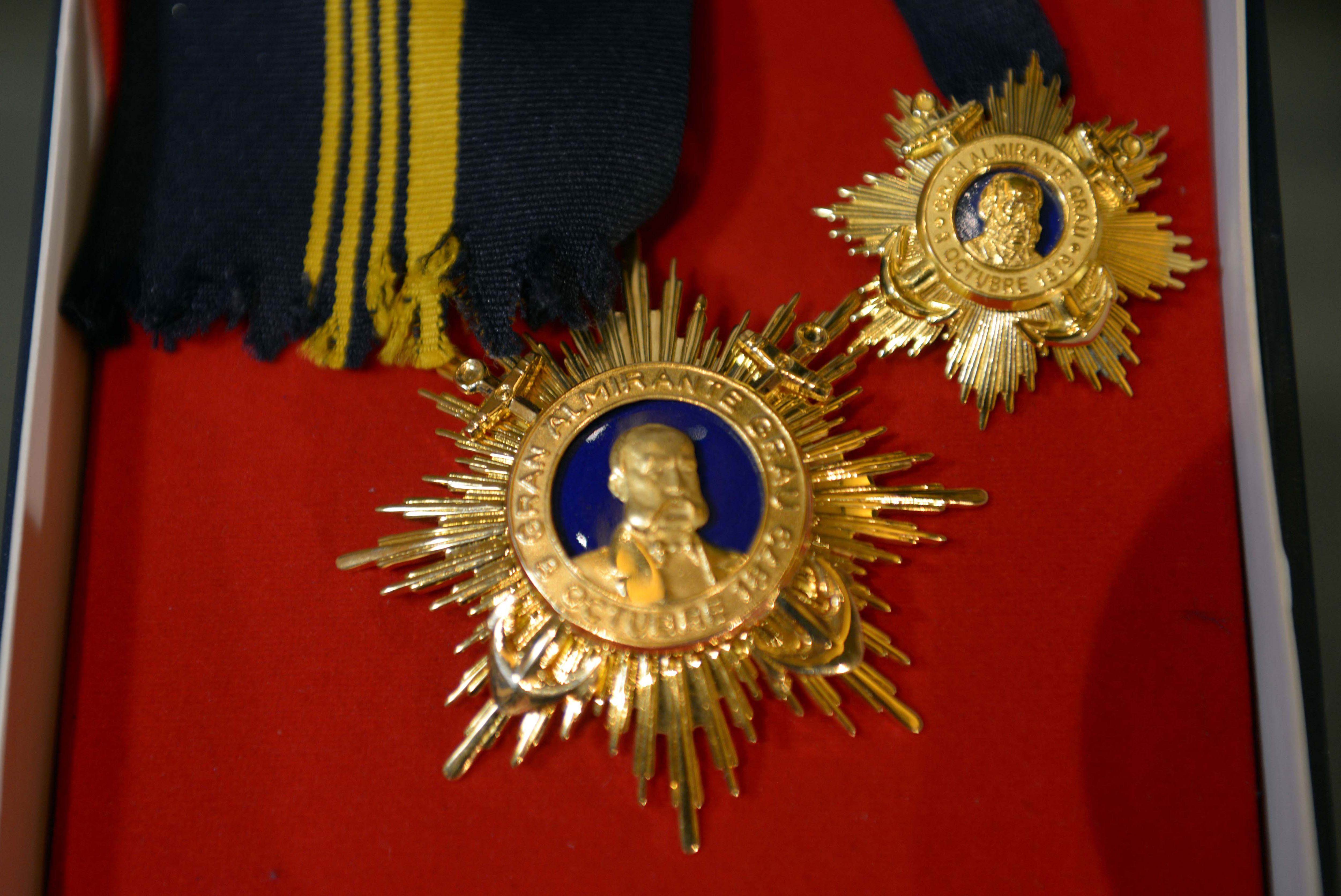 Entrega de las condecoraciones “Orden Militar Francisco Bolognesi” en grado de Gran Cruz y “Orden Gran Almirante Miguel Grau” en grado de Gran Cruz a cargo del Dr. Jakke Valakivi Álvarez, Ministro de Defensa. Paracas, Perú. 03 de julio de 2015.